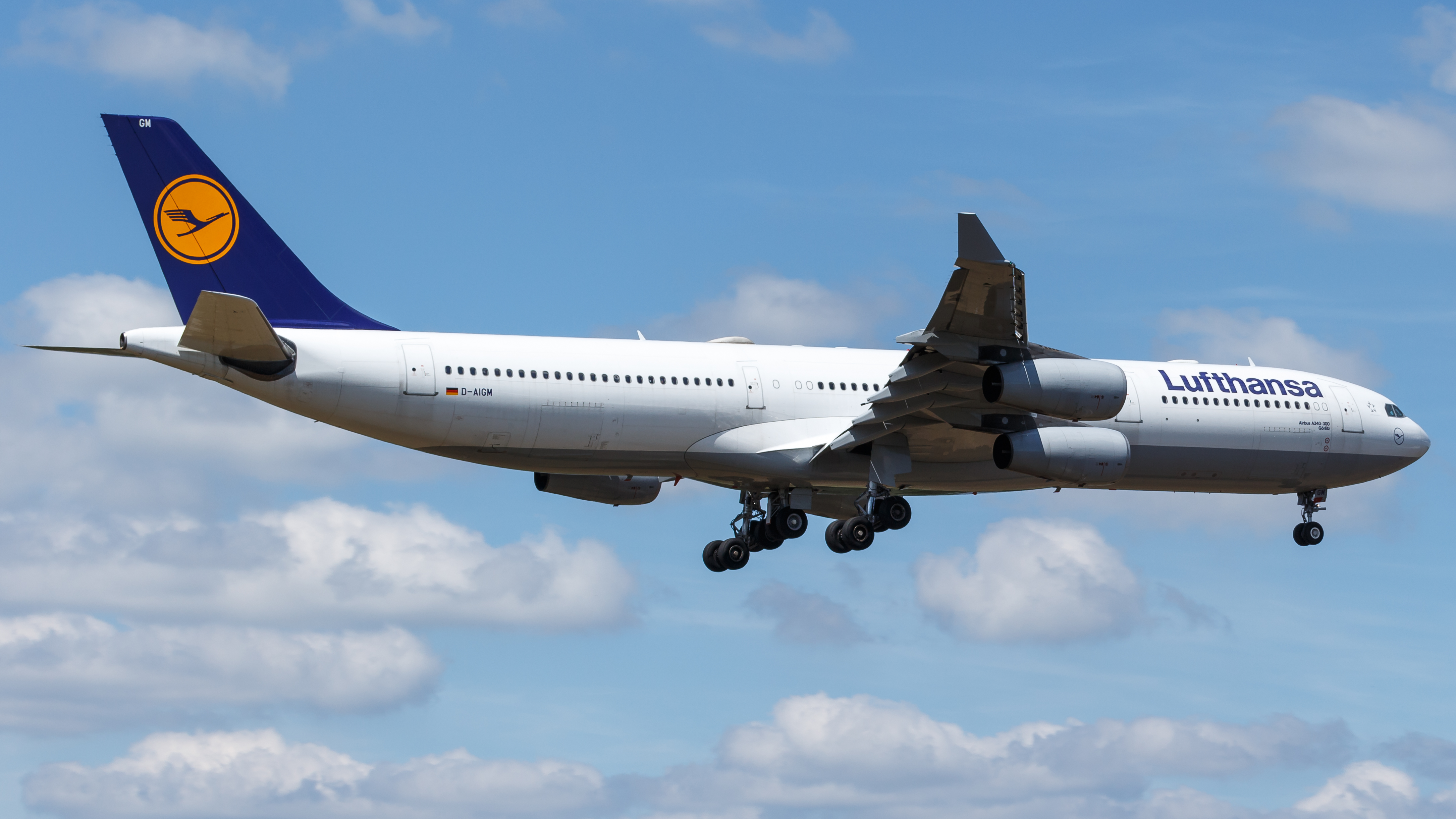 Lufthansa Airbus A340-300 at Frankfurt Airport